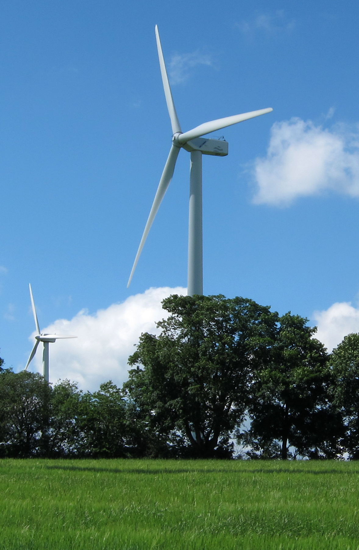 Golden Steinrueck, Vogelsberg, Hesse, Germany - Wind turbine - June 2012